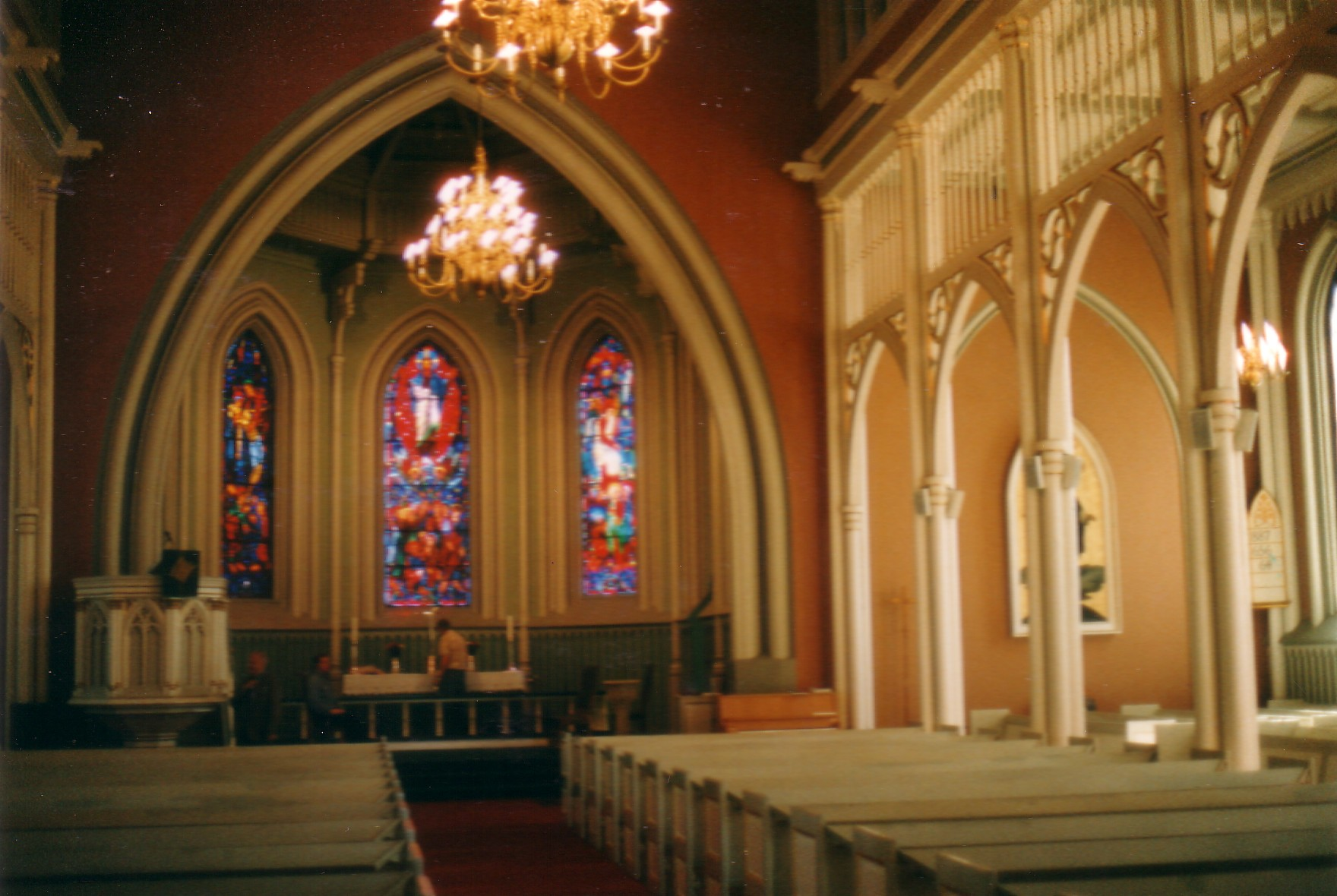 Interior of Sarpsborg Church, Sarpsborg, South Norway